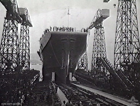 DEVONPORT, ENGLAND. 1944-09-30. THE LAUNCHING OF THE AIRCRAFT CARRIER HMS TERRIBLE WHICH WAS LATER COMMISSIONED INTO THE RAN AS HMAS SYDNEY (III).